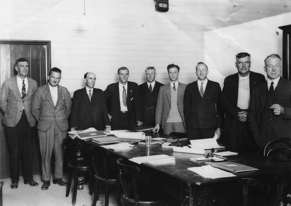 Aldermen of the Coolangatta Town Council in 1933 L to R: Engineer, J. C. Slaughter (town clerk), S. W. (Bill) Winders (mayor), J. L. (Jack) Gordon (deputy mayor), Len Peak, Ernie Silverton, Cec Adair, H. Youngman, and Bill Stafford.